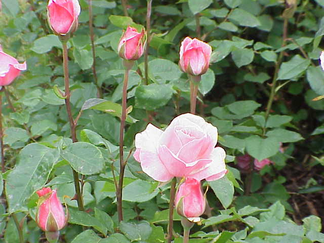 Species: Rosa sp. Family: Rosaceae Cultivar: The Queen Elizabeth, Germain´s Seed & Plant Co. 1955 Image No. 282